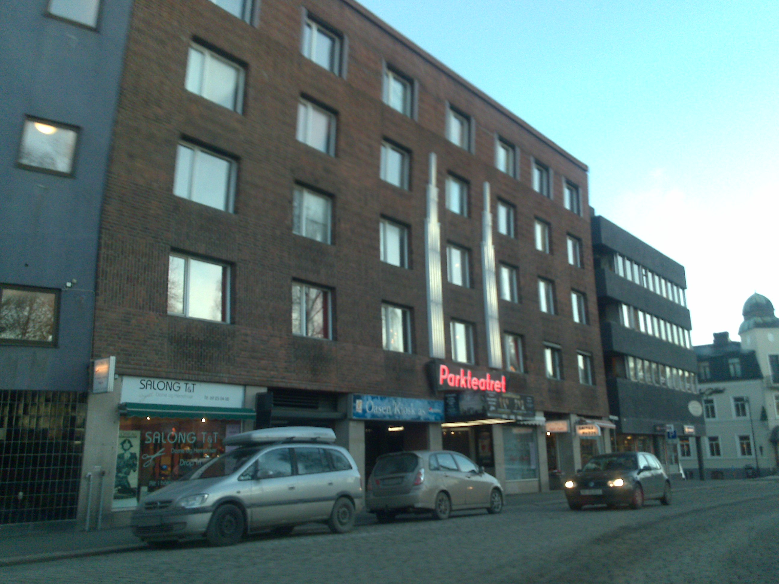 Park Theater, Moss city, Norway (Parkteatret). Dronningensgt. 25.